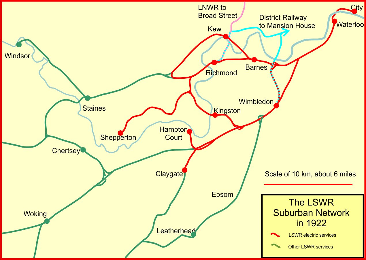 Map of LSWR electrfied routes in 1922